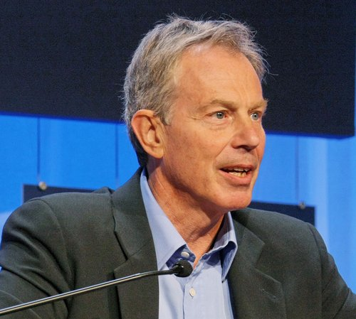 Tony Blair, Prime Minister of the United Kingdom (1997-2007); Member of the Foundation Board of the World Economic Forum; Co-Chair of the World Economic Forum Annual Meeting 2008, captured at the Opening Press Conference of the Annual Meeting 2008 of the World Economic Forum in Davos, Switzerland.